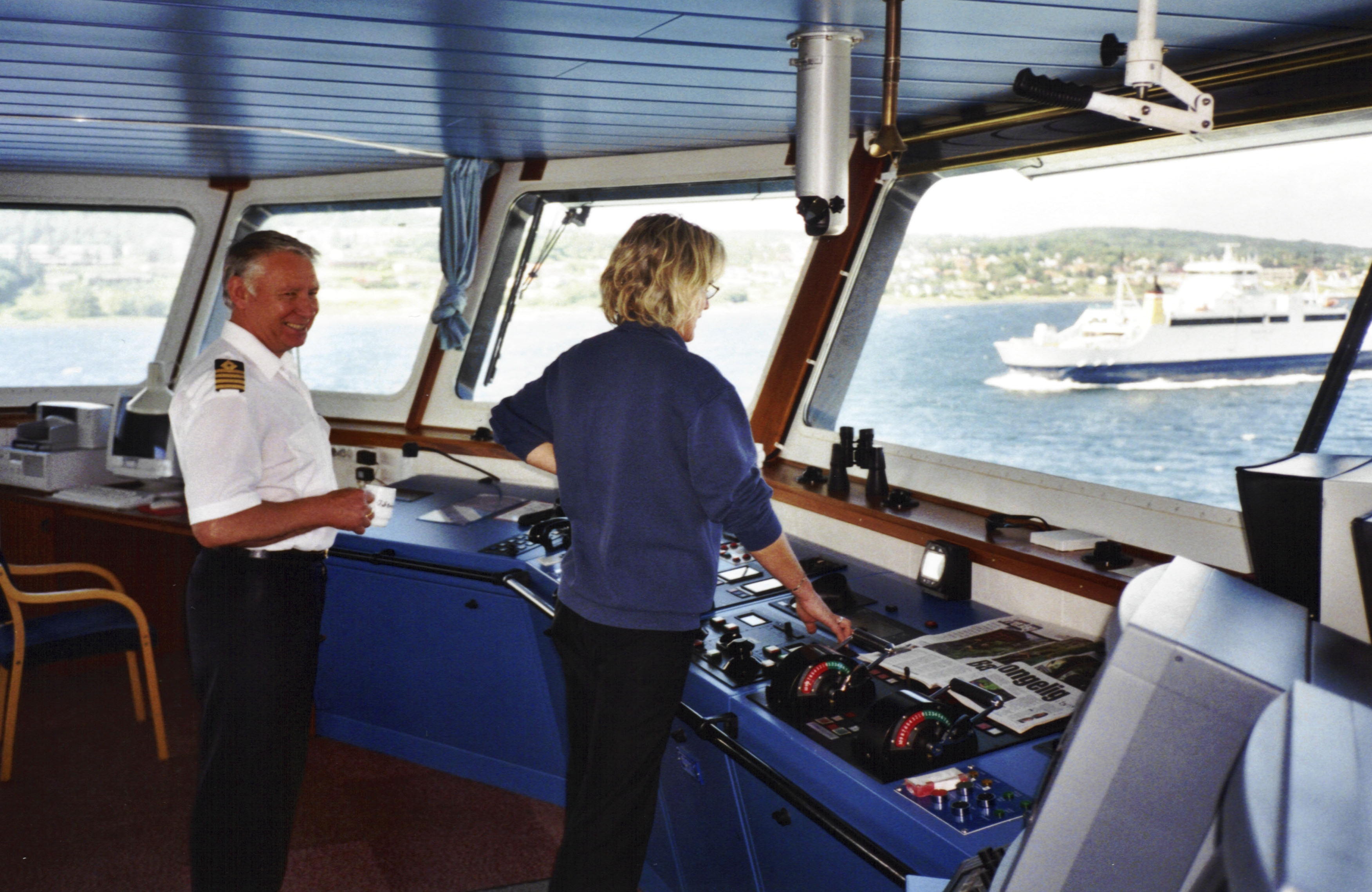 Norwegian sea captain (master mariner) and female AB on Norwegian coastal ferry MV Bastø I entering Moss